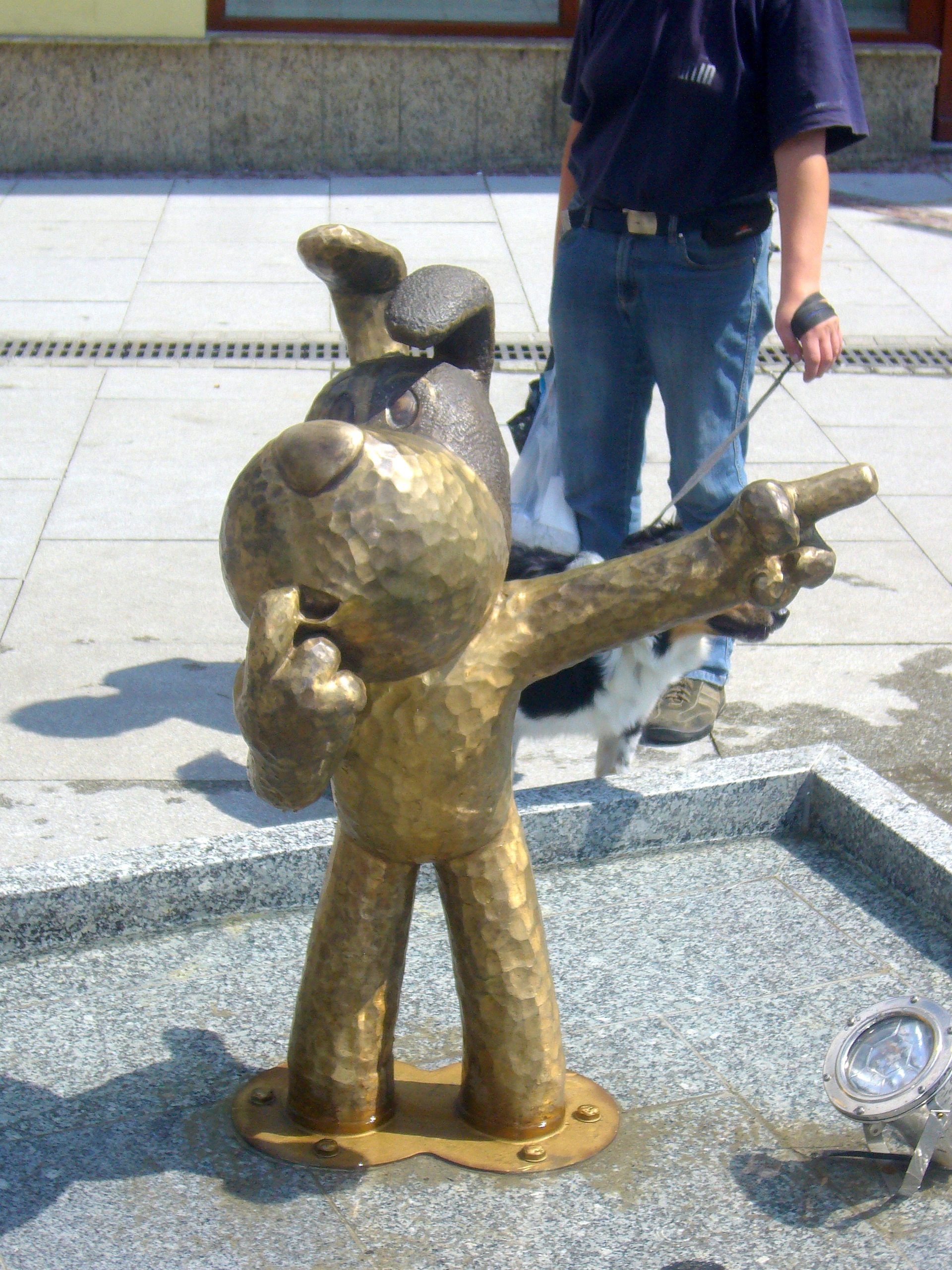 Reksio Monument in Bielsko-Biała, Poland.